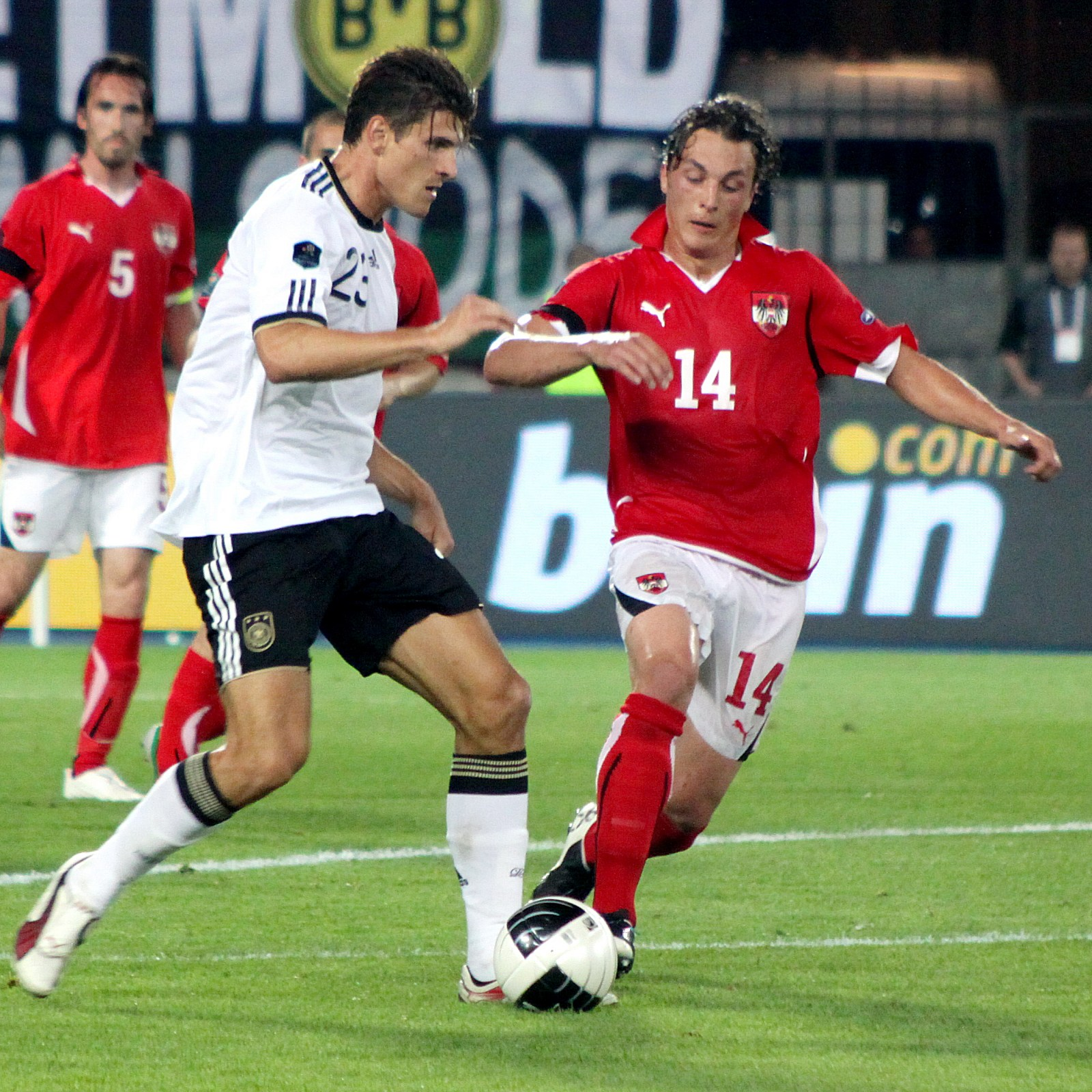 Qualifying for the UEFA Euro 2012 Austria (red shirt) vs. Germany (white Shirt) 1:2 (0:1) at 2011-06-03 in Vienna (Ernst-Happel-Stadion) — The photo shows (fron left to right): Christian Fuchs (1. FSV Mainz 05), Mario Gómez (FC Bayern München), Julian Baumgartlinger (FK Austria Wien).